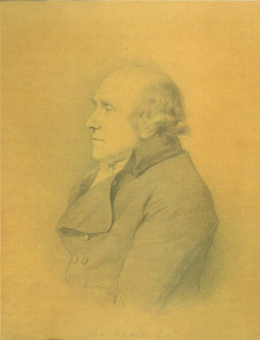 John Hunter. Pencil on paper by Sir Nathaniel Dance Holland Bt RA 1793